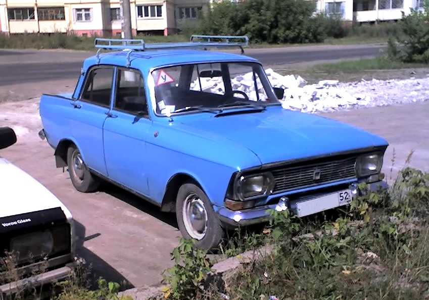 The Moskvitch-412IE OR M-408IE (they didn't have external differences) (version after 1969 re-styling) (also perfectly fits the Moskvitch-408IE, after 1973 the only difference was the engine), produced between 1974 and 1976. Photographed in Nizhny Novgorod, Russia, August, 12 - 2007.